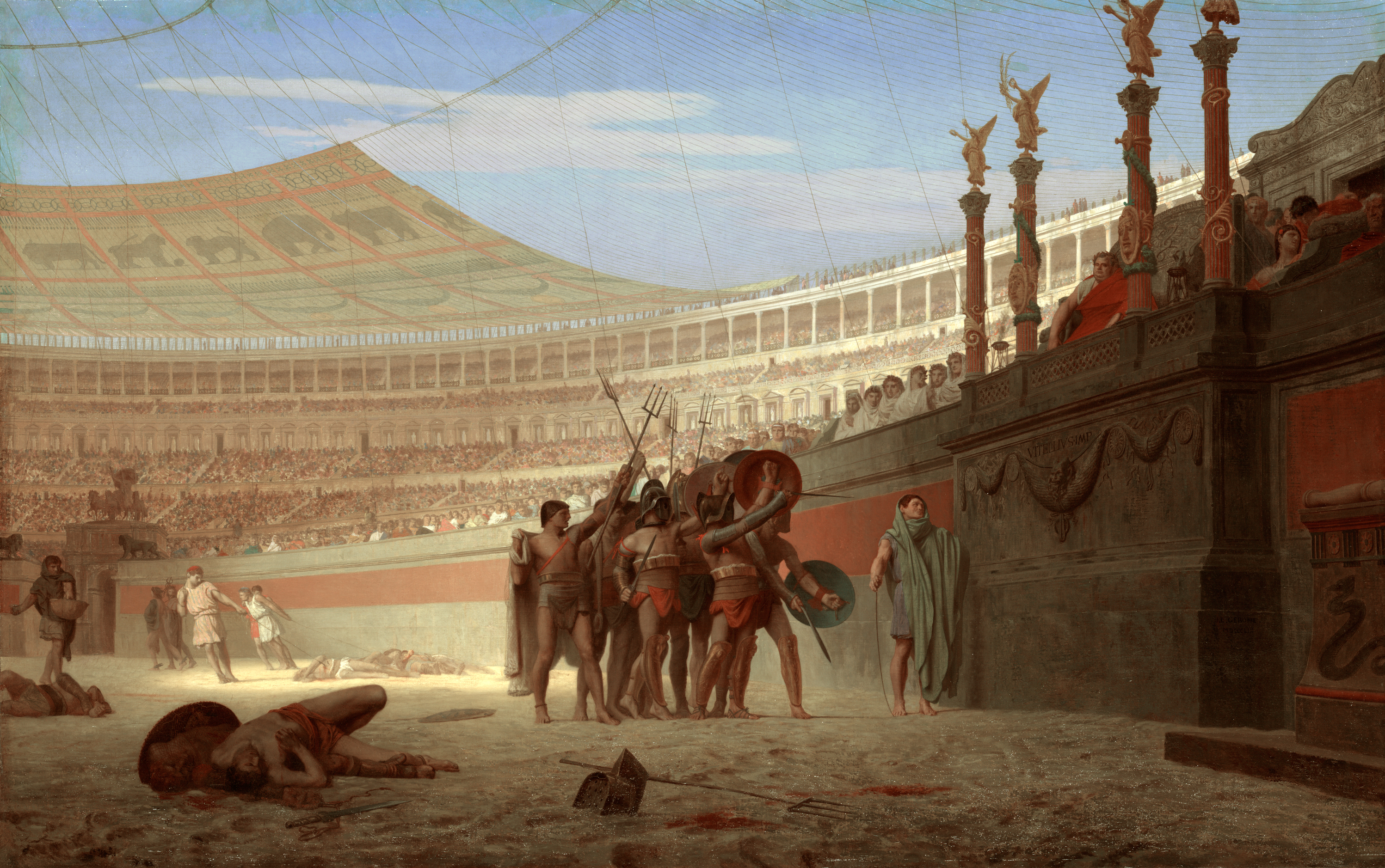 Ave Caesar! Morituri te salutant oil on canvas 93.1 x 145.4 cm signed b.r.: J.L. GEROME / MDCCCLIX 1859